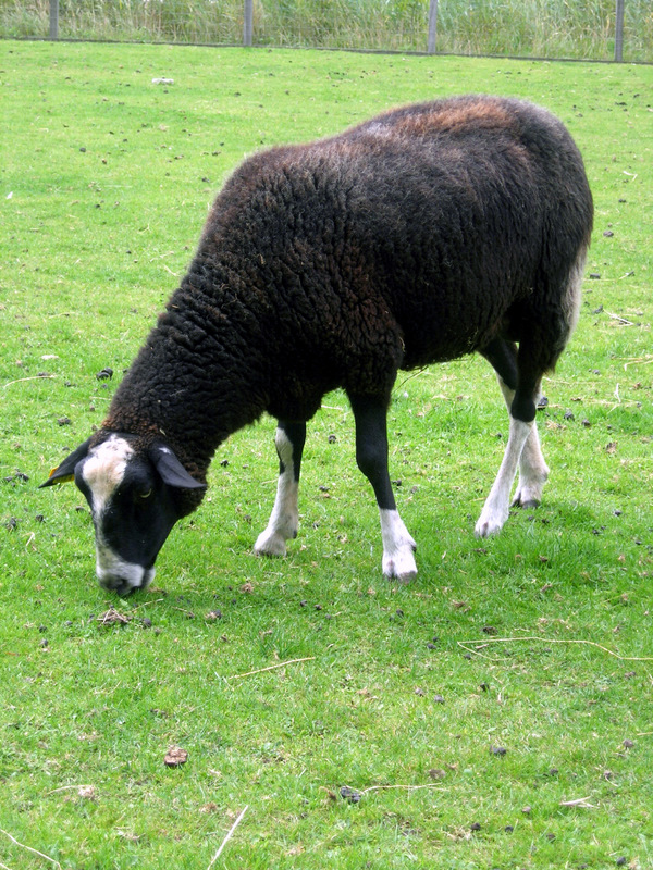 A Zwartbles sheep in the Netherlands.